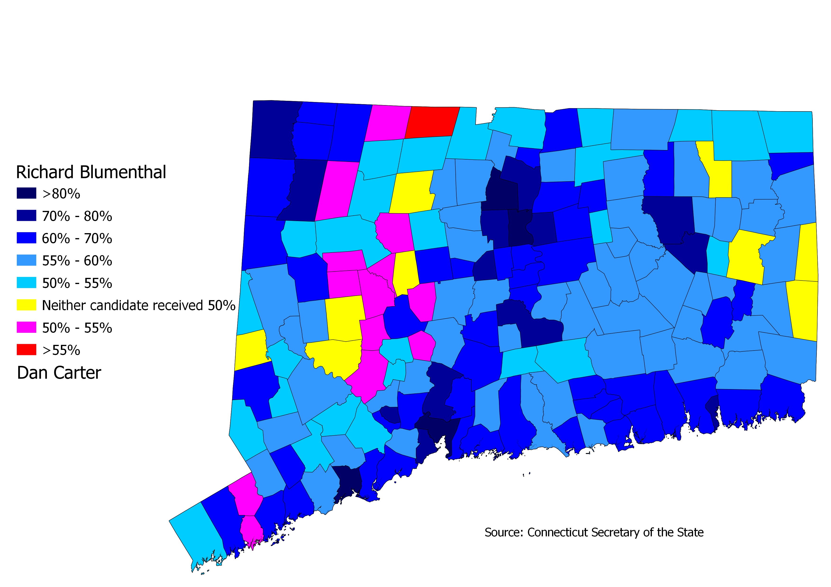 Results of the 2016 U.S. Senate Election in Connecticut by town. Made by Gregory N.